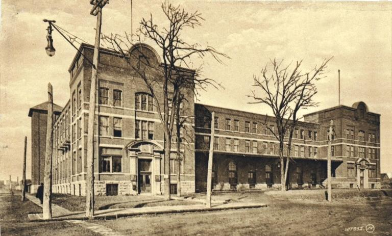 Print (photomechanical), Viauville Biscuit Factory, near Montreal, QC, about 1910. Ink on paper - Collotype - 7.9 x 12.9 cm